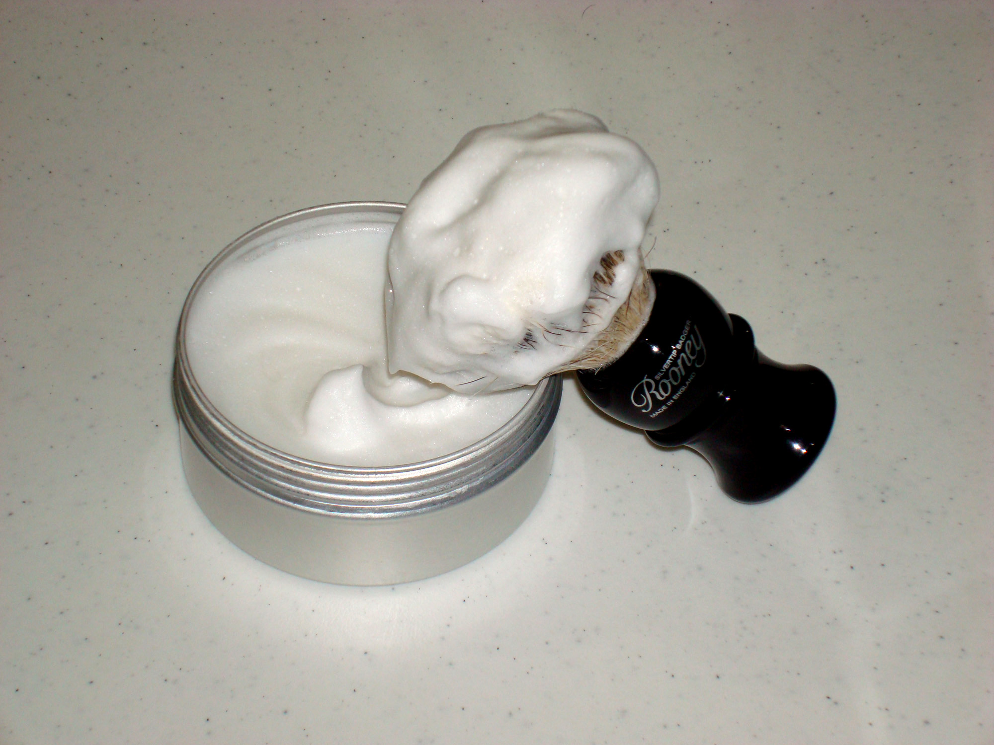 Shaving soap.